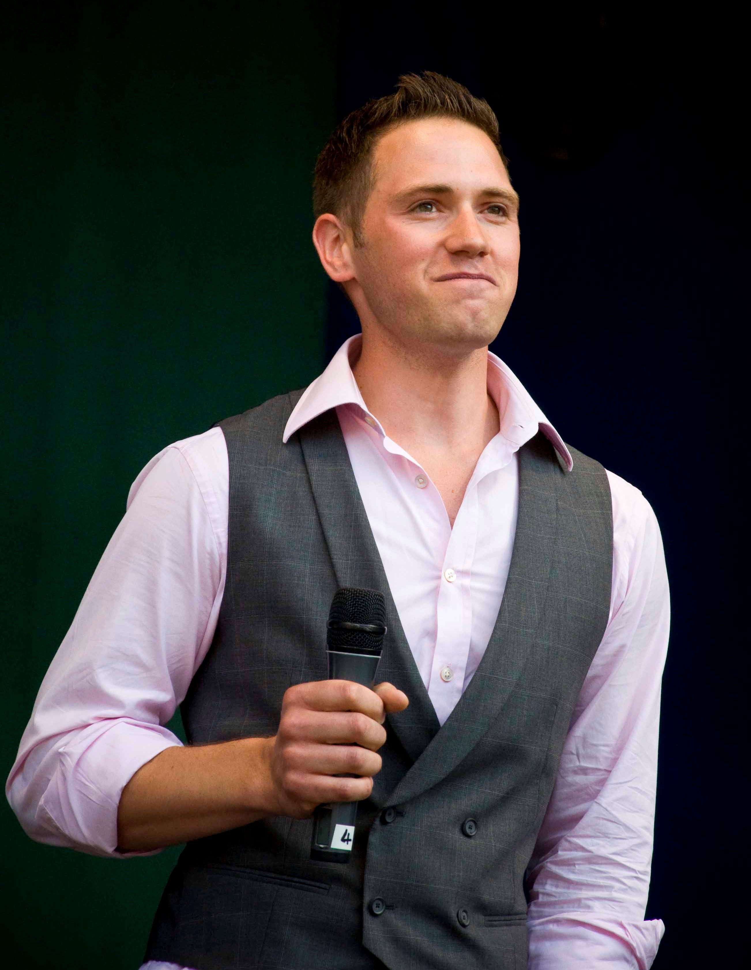 Kristian Digby at Pride London, July 2009